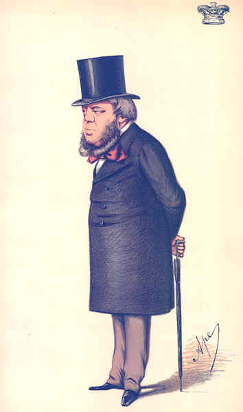 Caricature of John Spencer-Churchill, 7th Duke of Marlborough (1822-1883). Caption read "A Conservative religionist".